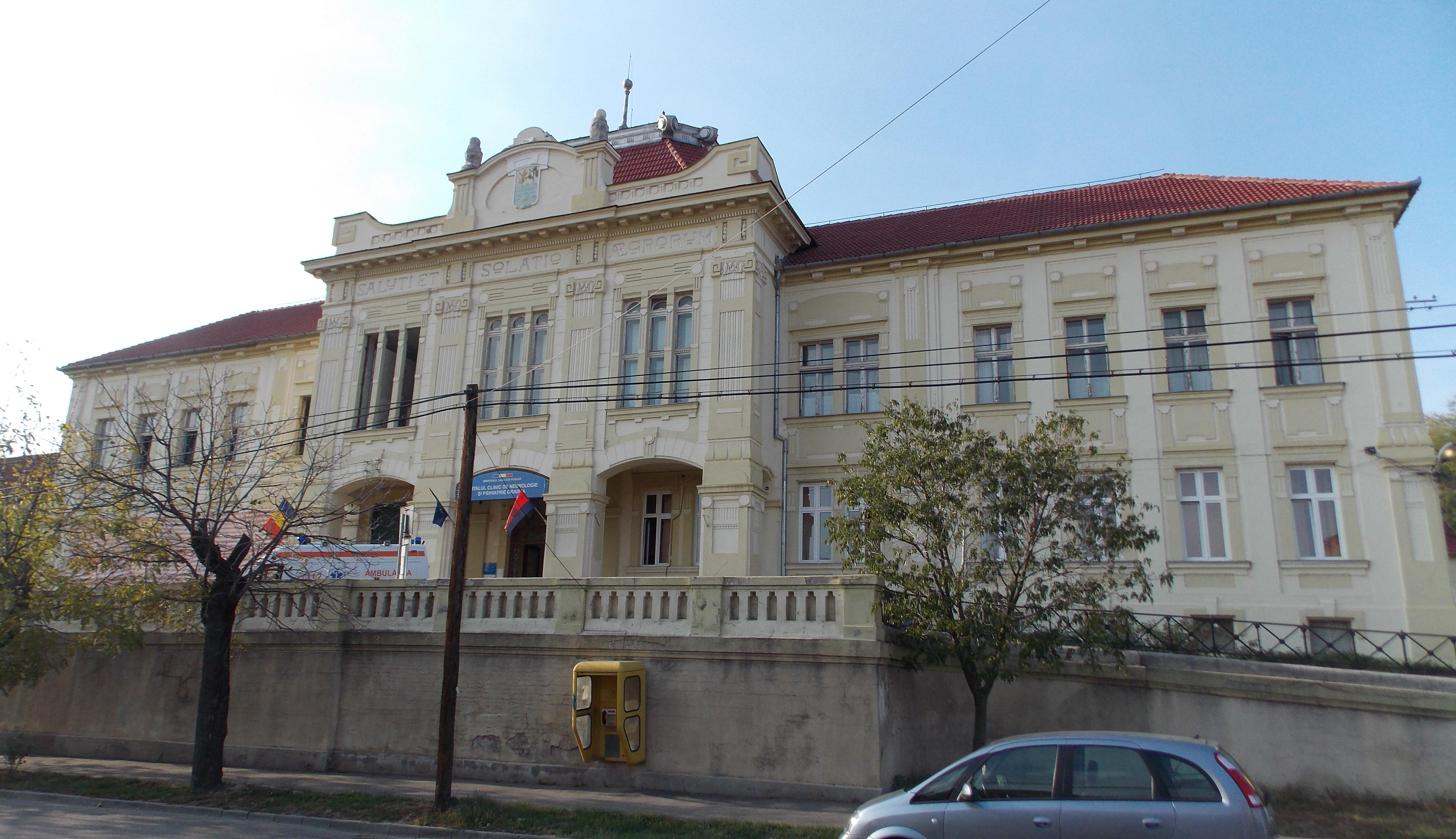 Neuropsychiatric Hospital - Oradea